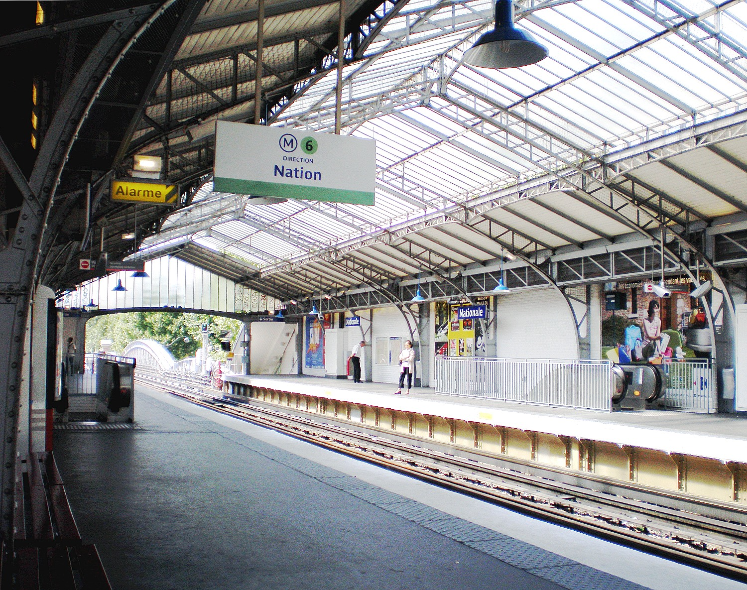 Nationale station - Paris